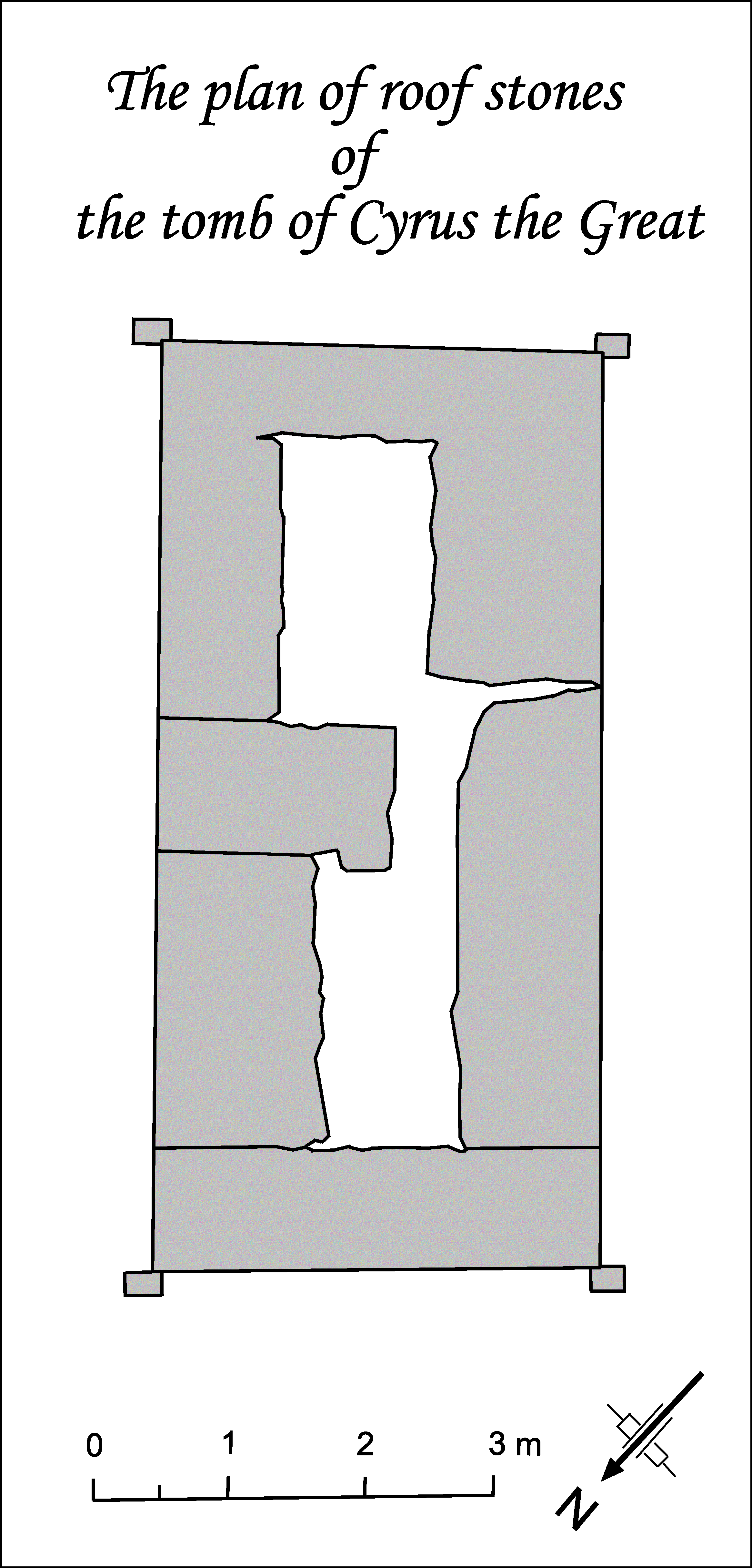 Plan of roof stones of the tomb of Cyrus the Great